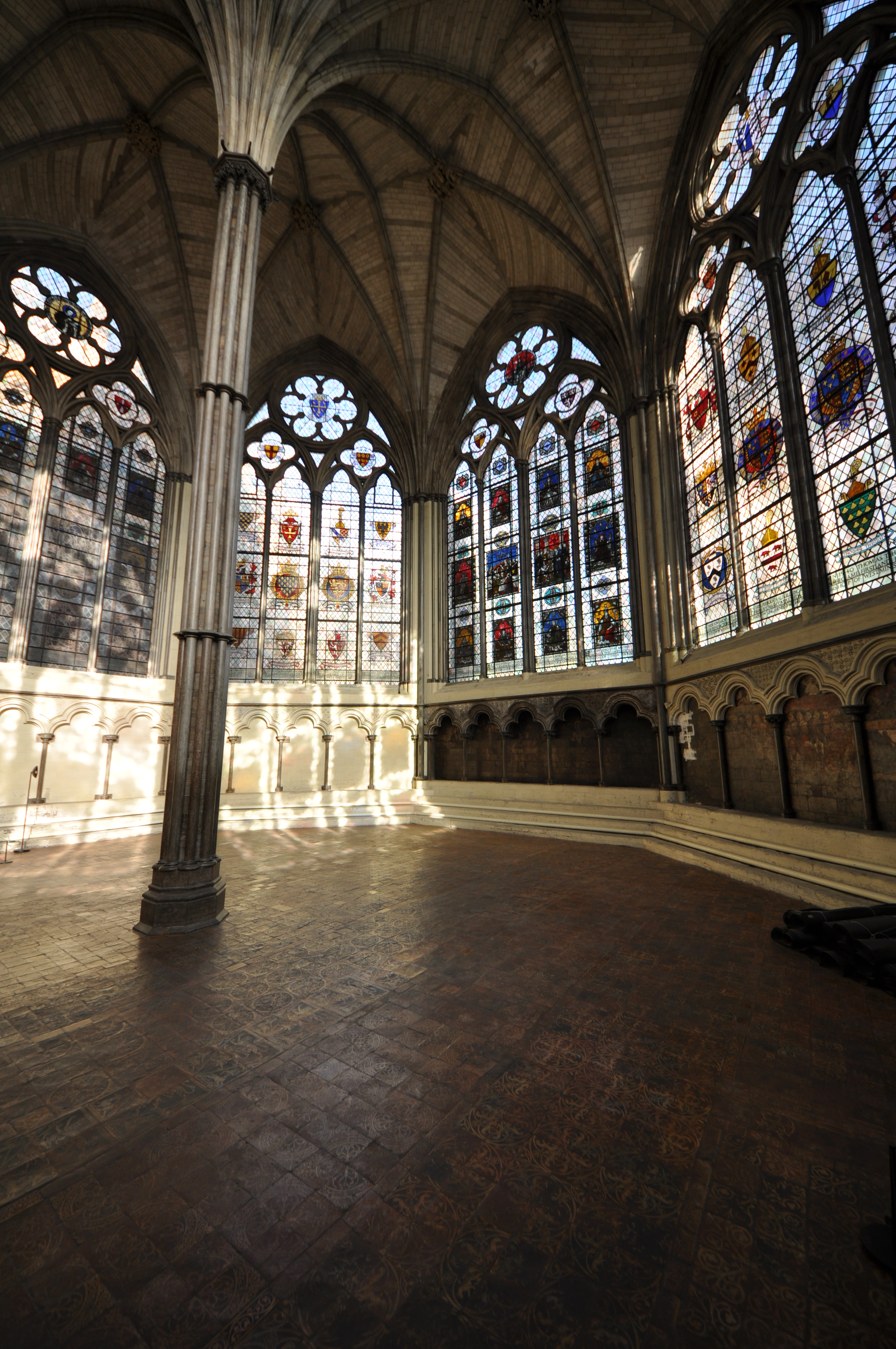 Chapter House of the Westminster Abbey in London.